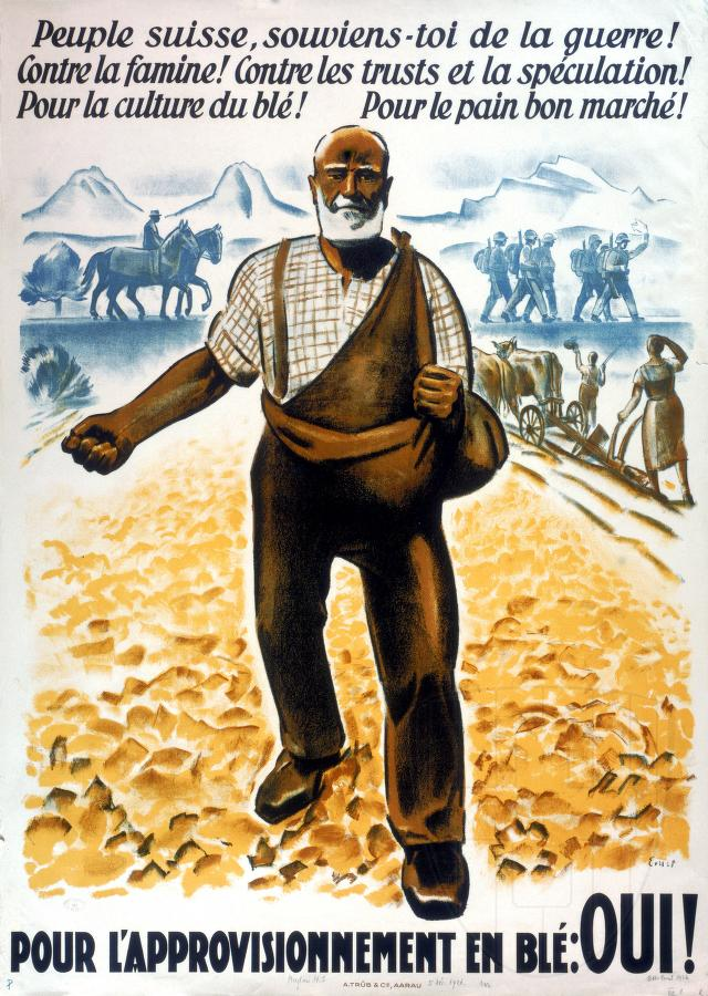 Swiss advertisement for votation regarding cereals supply of the country in 1926